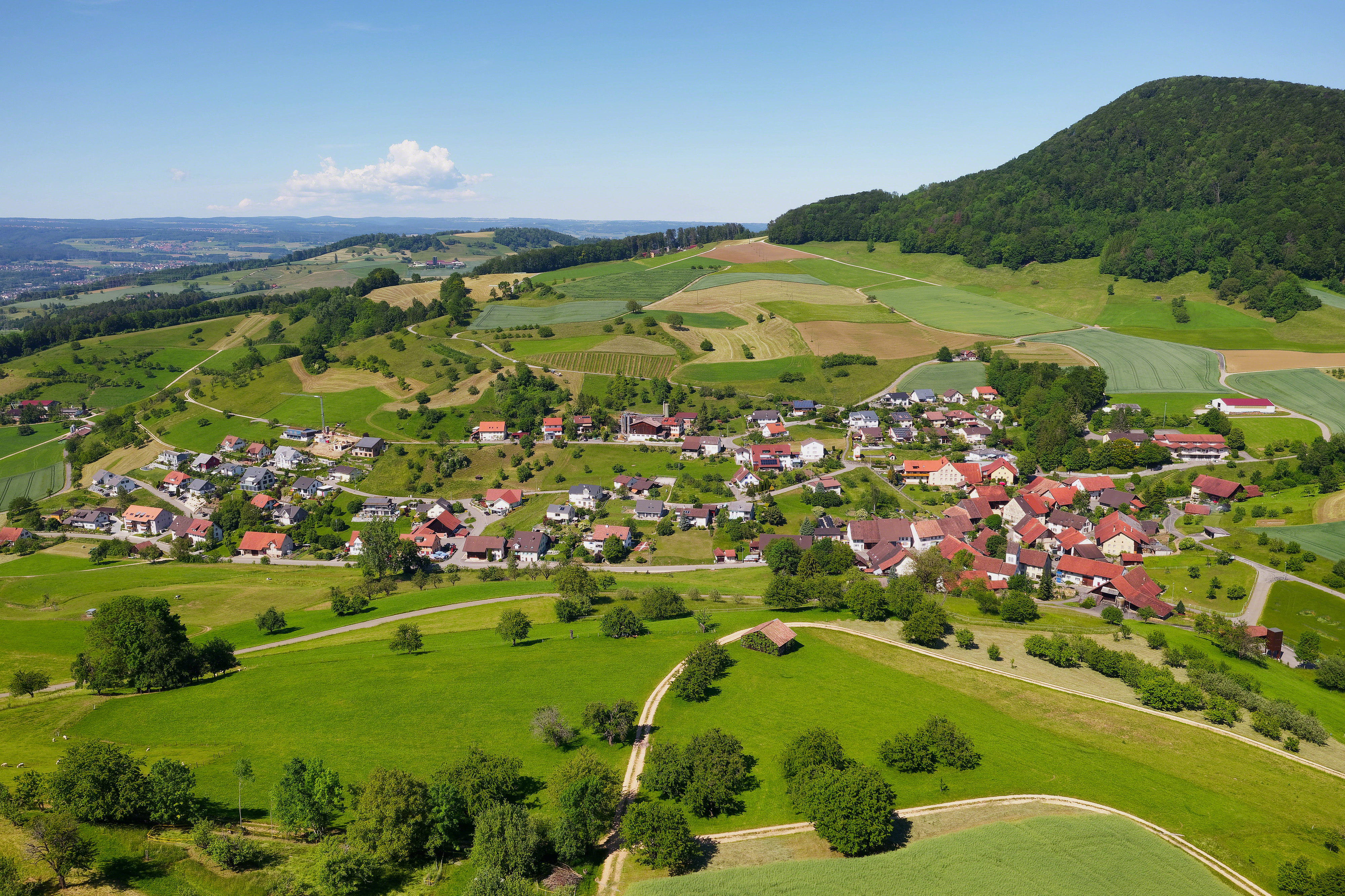 Ittenthal